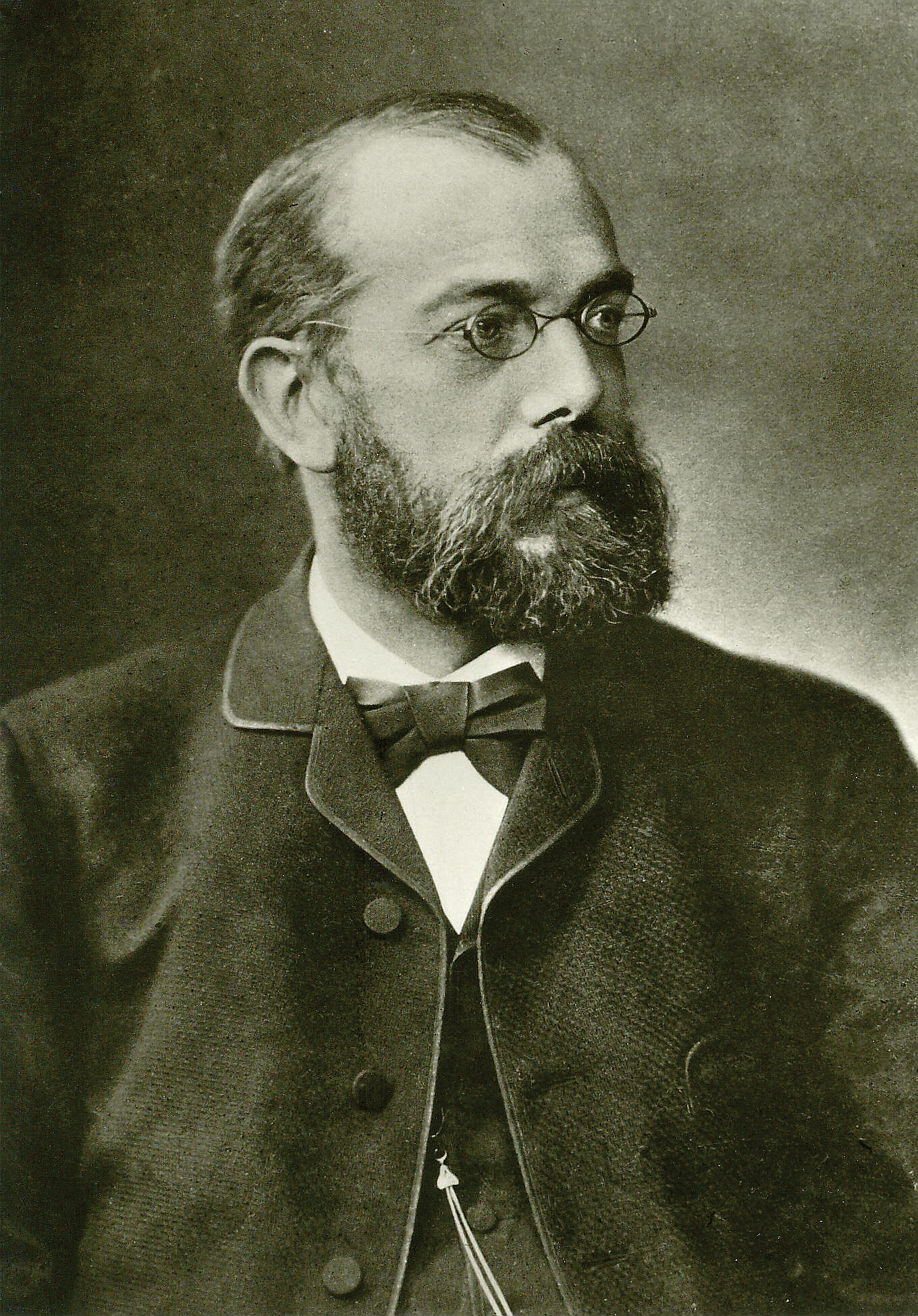 Robert Koch was a German physician. He became famous for isolating Bacillus anthracis (1877), the Tuberculosis bacillus (1882) and Vibrio cholerae (1883) and for his development of Koch's postulates. Koch used ZEISS microscopes to aid his discoveries. He was awarded the Nobel Prize in Physiology or Medicine for his tuberculosis findings in 1905. He is considered one of the founders of microbiology. Images donated as part of a GLAM collaboration with Carl Zeiss Microscopy - please contact Andy Mabbett for details.